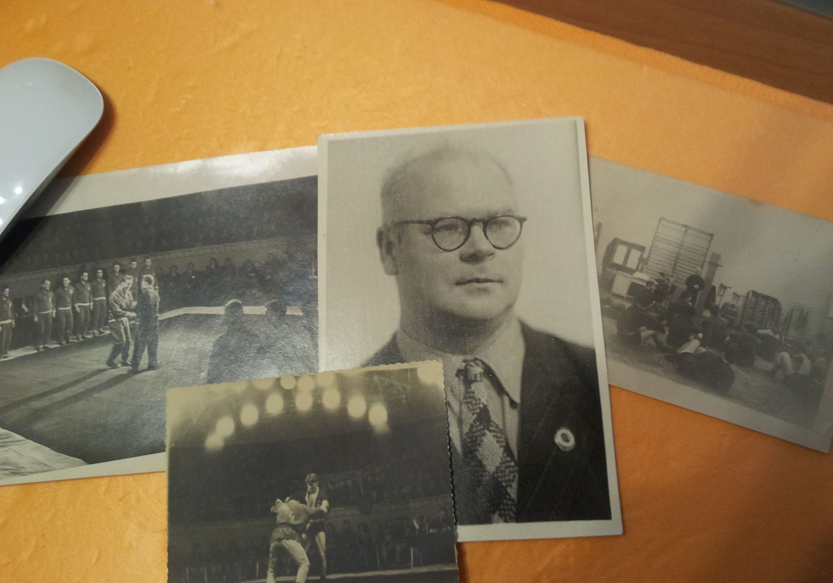 4 photos from the archives of prof. Ilyin VD. Picture taken VD Ilyin